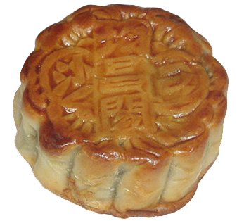 Mooncake